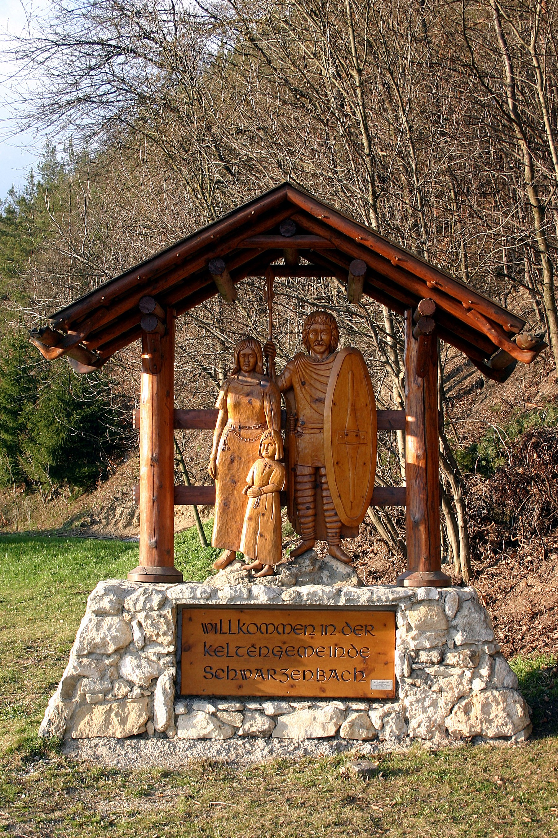 Schwarzenbach, Lower Austria (Austria)